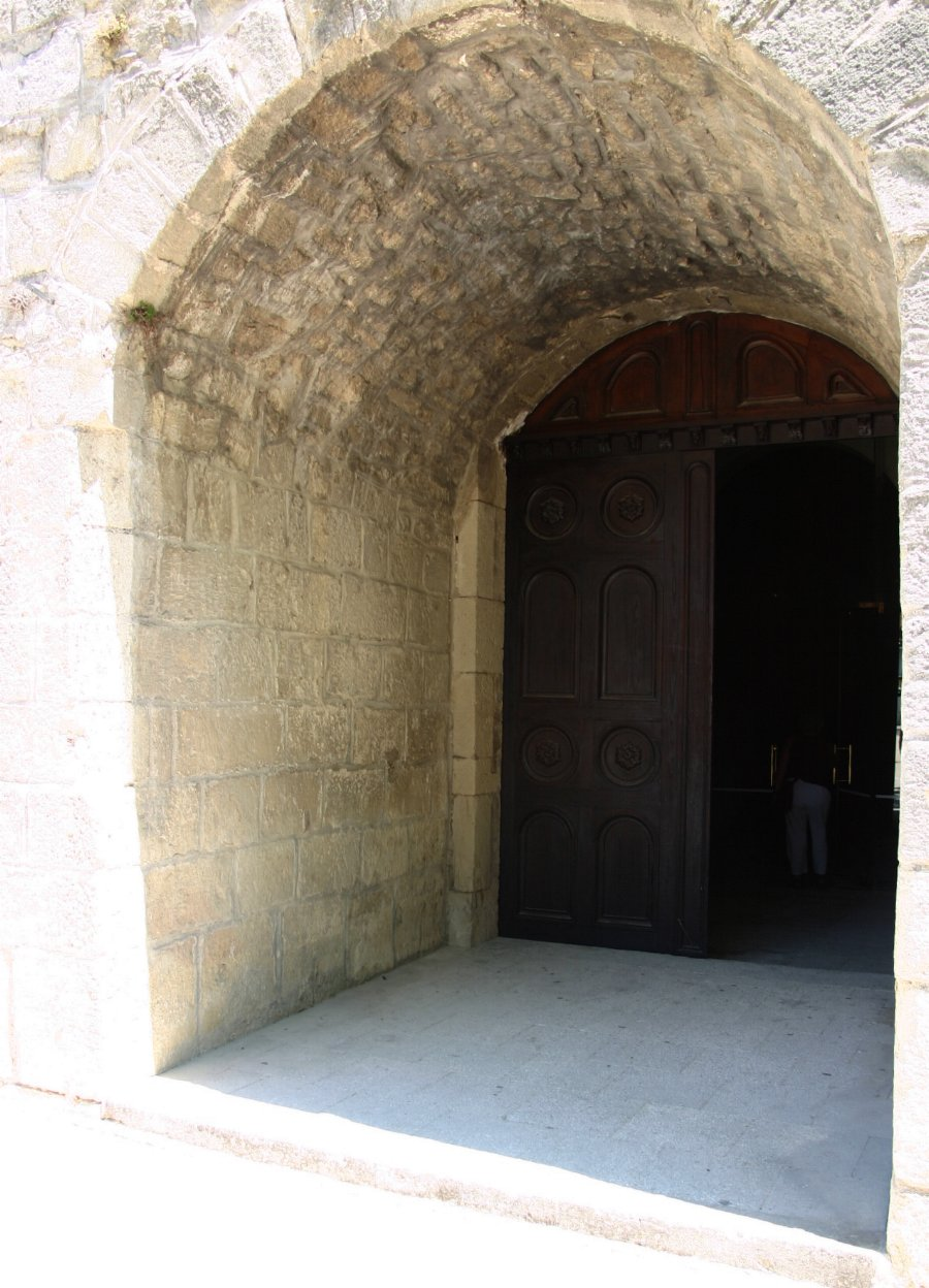 Main entrance to the cathedral of Vaison-la-Romaine